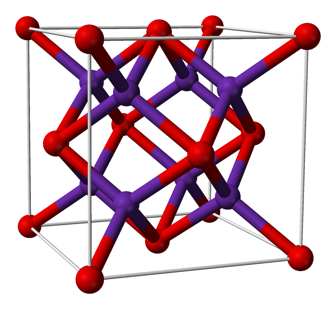 Ball-and-stick model of the unit cell of rubidium oxide, Rb2O. Crystal structure data from Wyckoff (1963) Crystal Structures - Second Edition, Volume 1. John Wiley, New York. Image generated in Accelrys DS Visualizer.